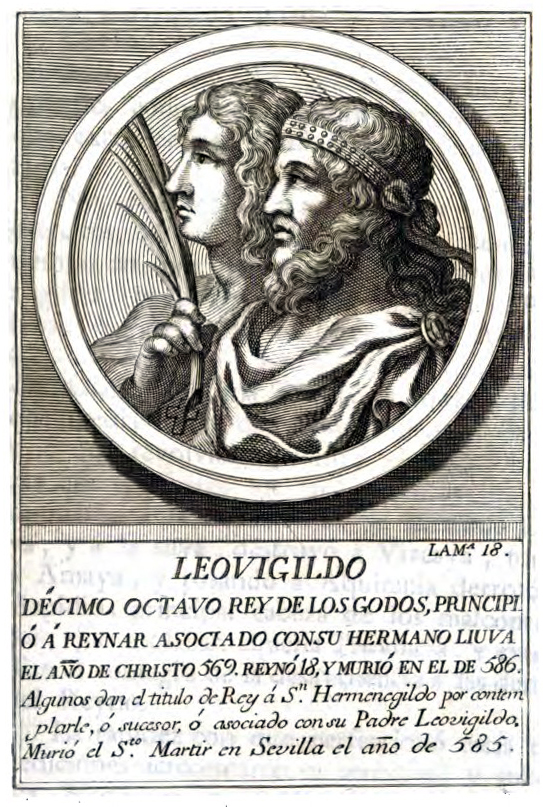 A poster of LEOVIGILDO, Visigoth king, n° 18 in the chronological order of the book digitalized by Google since the bookshop in the University of Oxford.